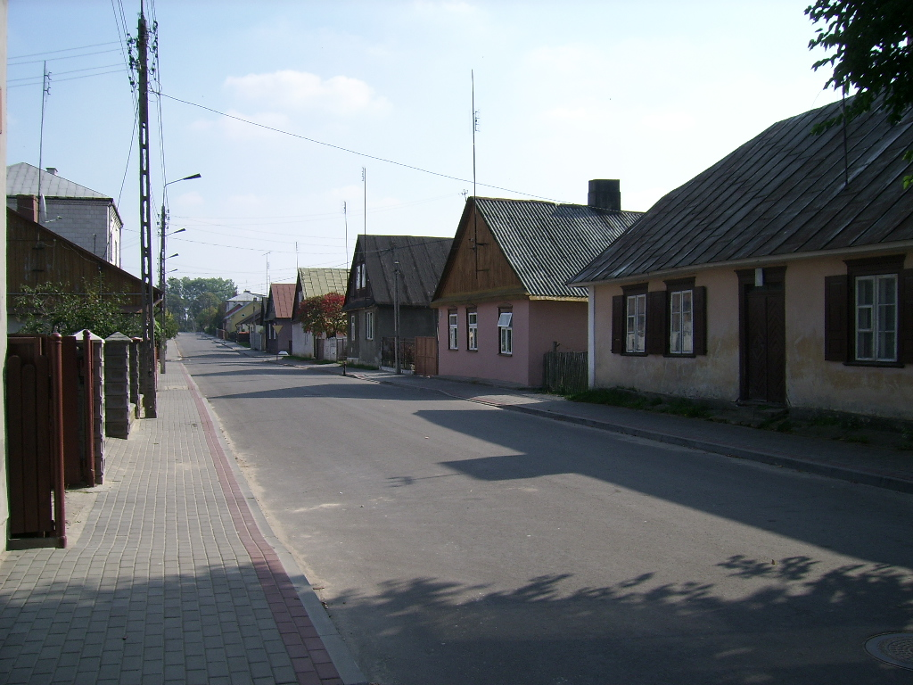 Lelewela street in Żelechów, Poland